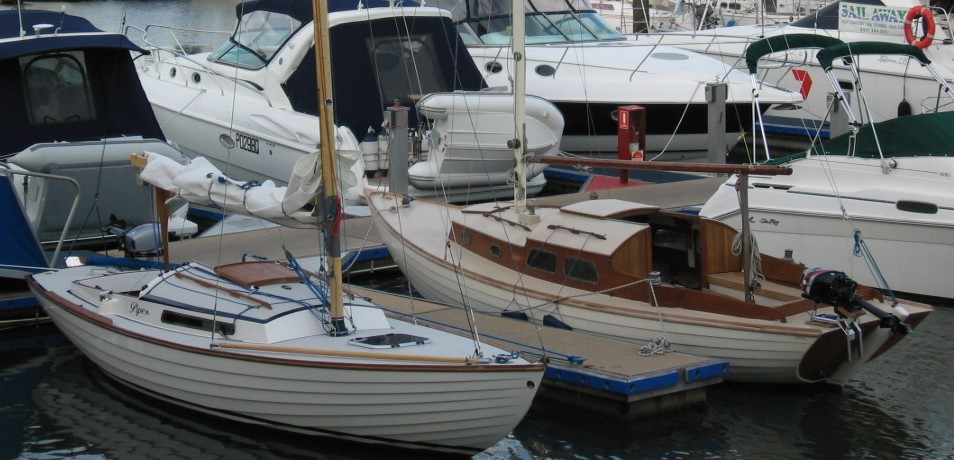 Fibreglas & Timber Folkboats side by side. The boat on the left is a modern version of the orginal design. The timber boat on the right was built in Australia in 1964. The hulls are identical in shape but the cabin top and cockpit on the 'Australian Folkboat' differ from the original Nordic design.